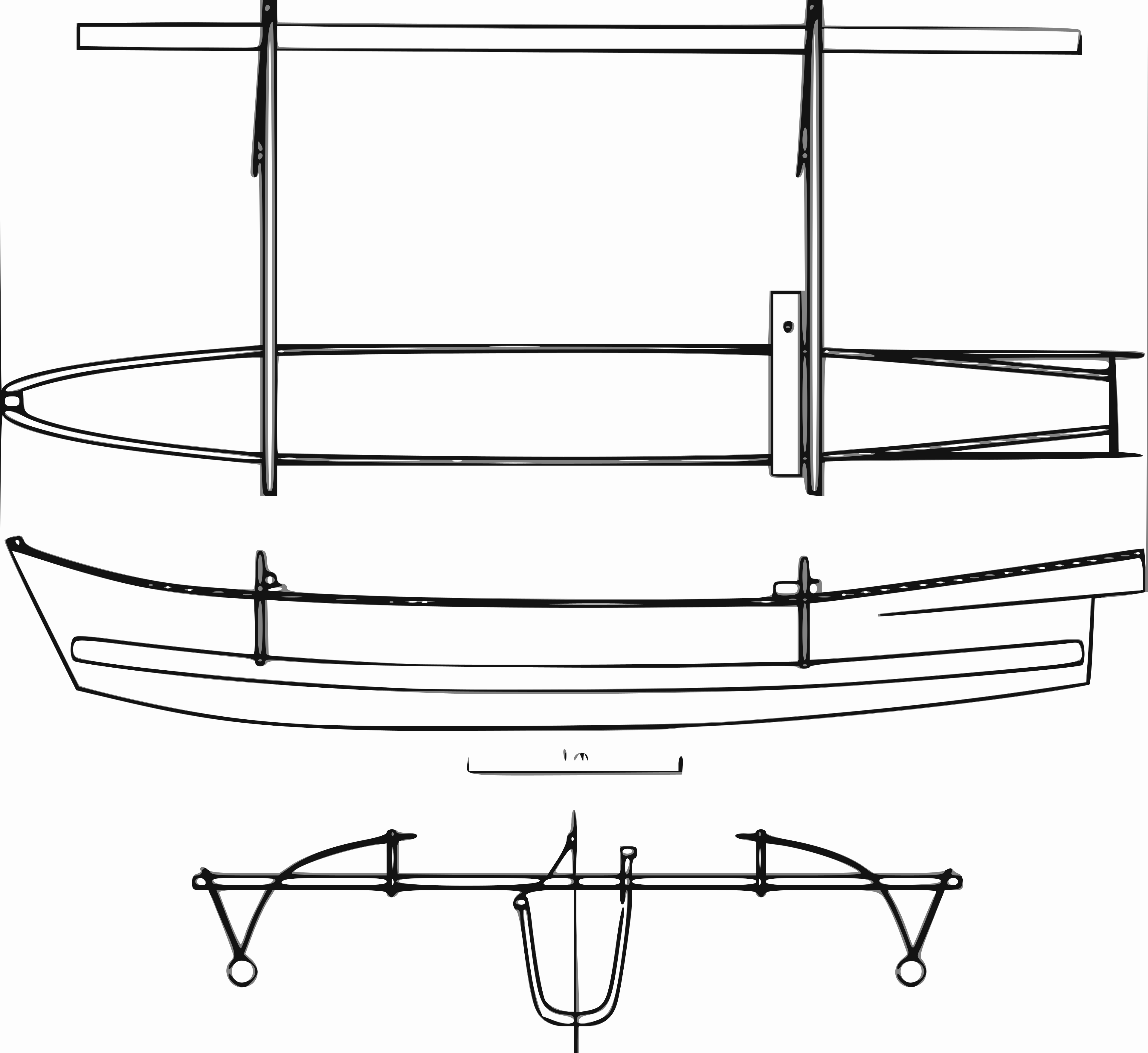 A pelang with outboard engine as its main propulsion. This vector image is a reproduction of an image by Aziz Salam.